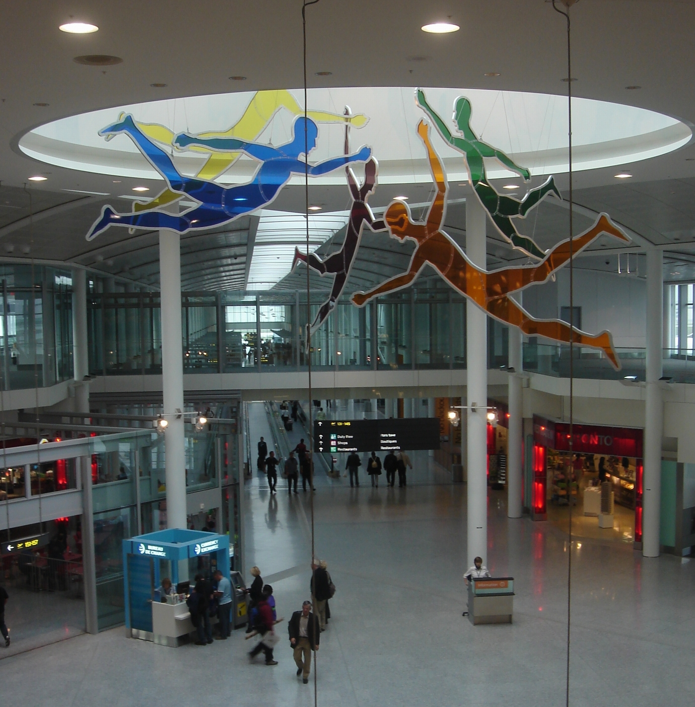 Toronto Pearson Airport – Terminal 1 – building interior with Jonathan Borofsky's I dreamed I could fly sculpture